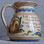 AV Shaft